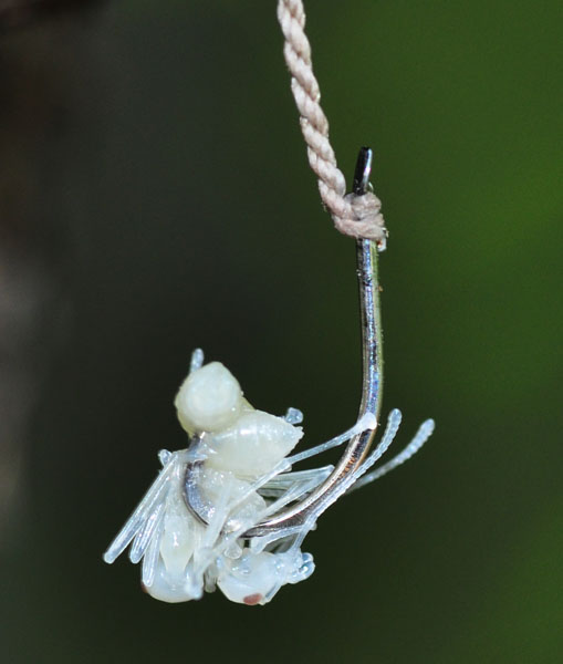 Ant bait for fishing